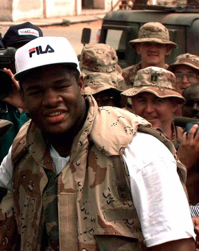 Boxing Heavyweight Champion Riddick Bowe visited the Pan African Center and posed for pictures with soldiers from the 548th Service Support Battalion, the Marines and Sailors from the 3rd of the 11th, Twentynine Palms, and the Somalia Sports Committee.